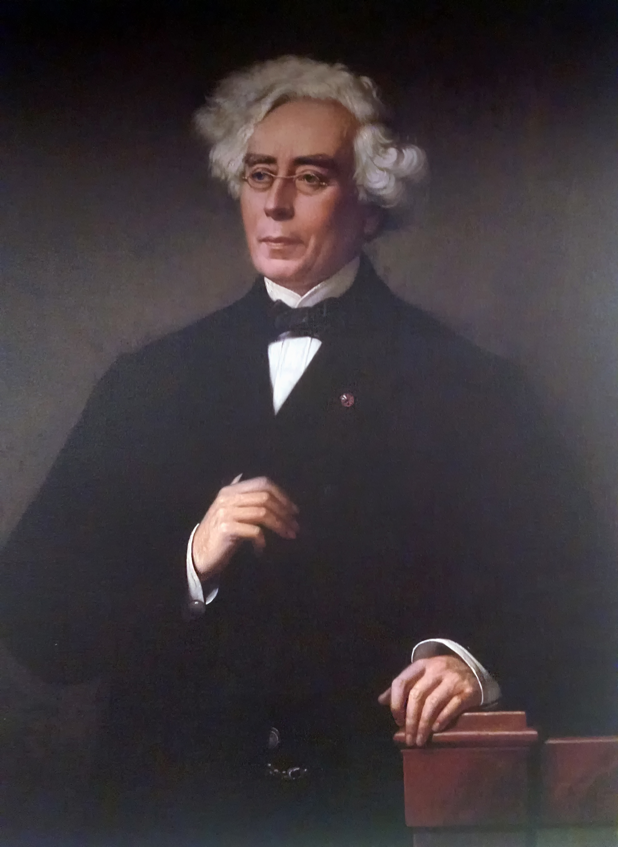 Professor criminal law at Leuven University (1848-1884) International advocate for the abolishment of capital punishment Lawyer (1860-1891), Belgian MP (Chamber of Representatives)(1863-1890), Belgian Minister of Internal Affairs and Education (1884-1887), Belgian Secretary of State (1887)